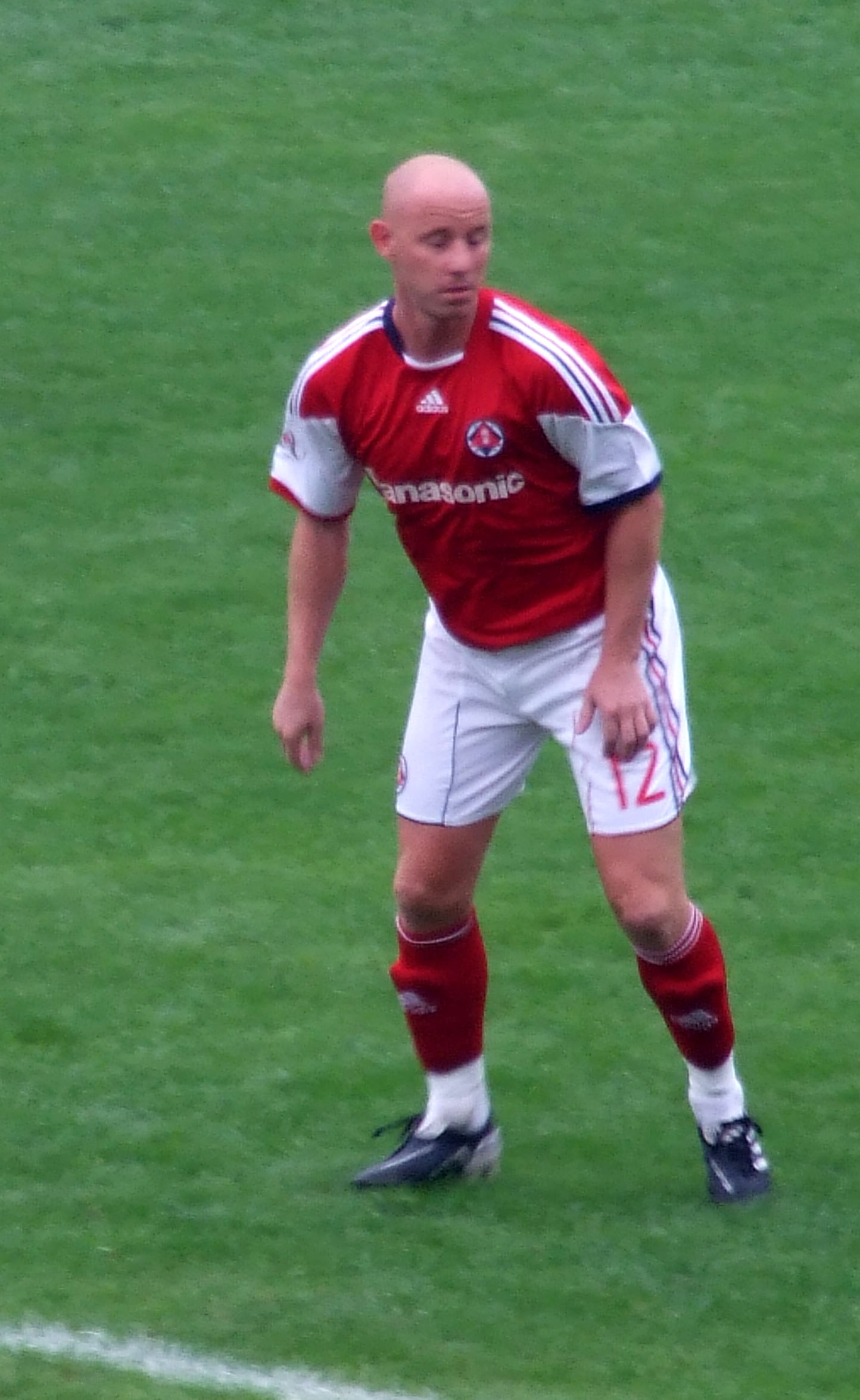 Nicky Butt played for South China vs TSW Pegasus during League Cup final on March 27, 2011.